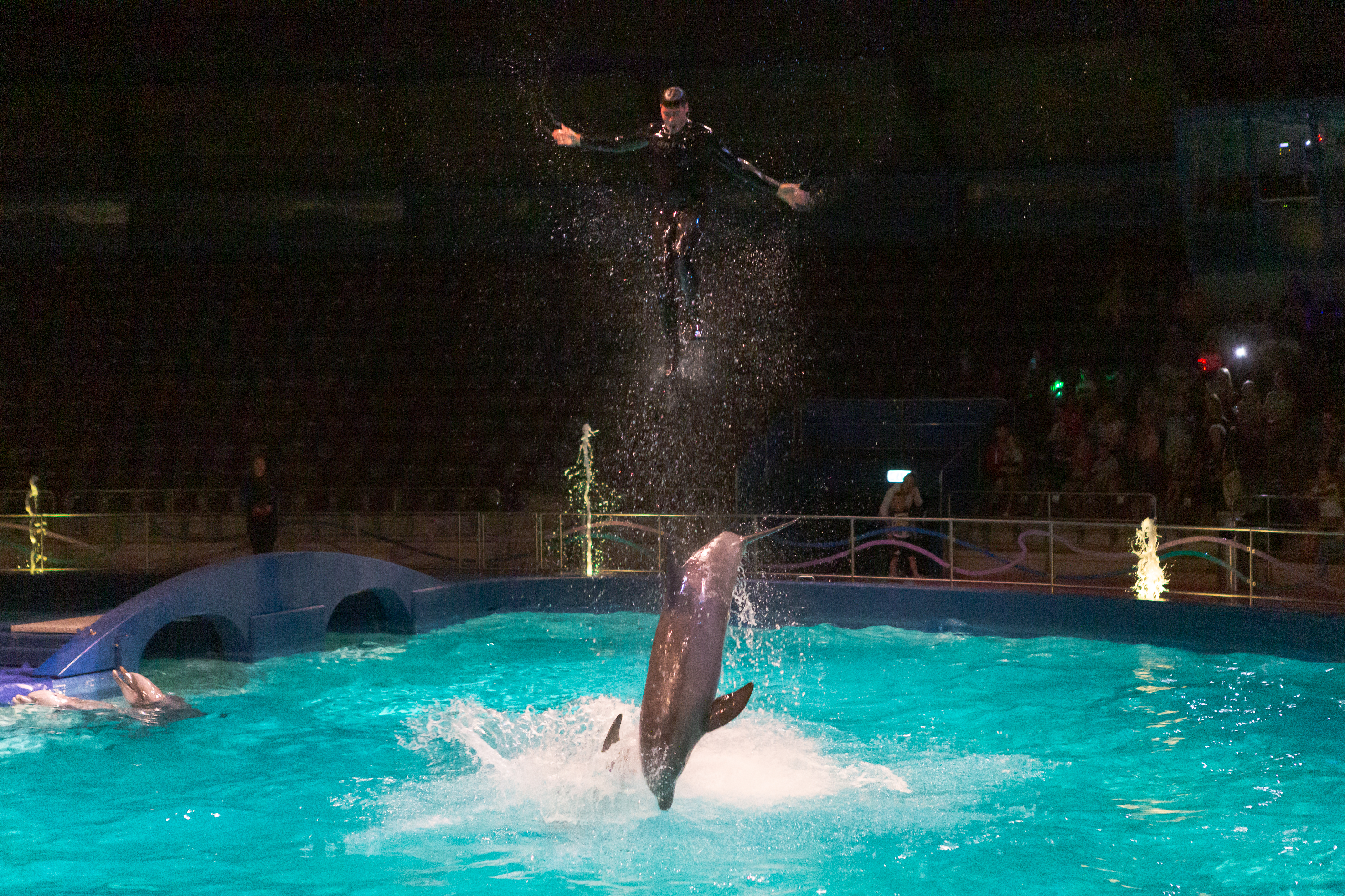 Dolphin show in the dolphinarium in Varna, Bulgaria.